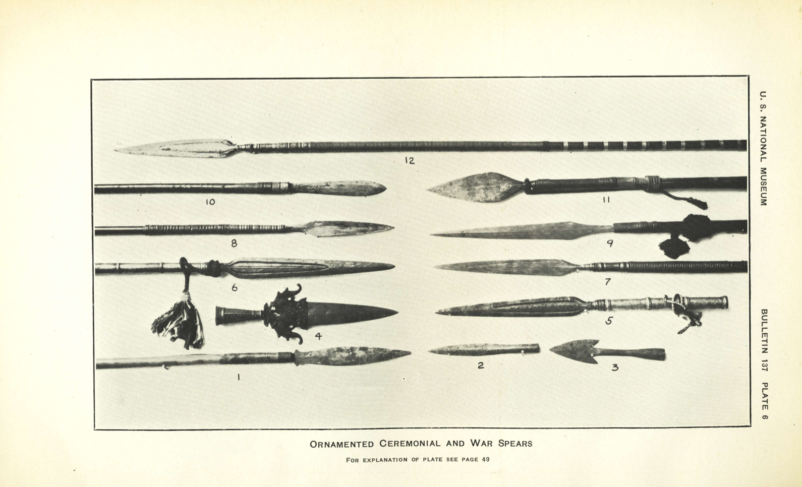 Plate 6 -- Spears used ceremonially and in war; shafts ornamented and figured with brass and silver overlay. No. 1. Cane shaft, rough-surfaced iron blade of good form. Moro. 2. Elliptic spearhead of iron with socket. Igorot, Luzon. 3. Bilaterally barbed iron spearhead with socket. Luzon. 4. Brass pike head: Two mythical bird figures supporting blade. Blade and socket engraved with geometric figures. Moro. 5. Fine workmanship in iron shown in deeply grooved and socketed spearhead; shaft ferruled with figured silver. Shaft is tasseled and capped with a spud of carabao horn at base. Moro, Mindanao. 6. Head of fine ironwork, deeply grooved and provided with median ridge. Ferrule of brass, collar cord and tassel, rattan shaft capped with spike at basal end, Moro. 7-8. Steel blades, shafts of palmwood wrapped with brass wire: Figured brass ferrule, Bagobo, southeastern Mindanao. 9. Long Iron blade, iron ferrule at neck; handed rings of rattan on shaft, tassel cord. Moro, Mindanao. 10. Blade of iron, thickened at distal end and tapering toward shaft, hardwood shaft ferruled with rattan and punched with brass rivets. Northern Luzon. 11. Short and broad iron spearhead fastened to rattan shaft by iron tang. Looped cord attached to neck of blade and to foreshaft of hardwood. Moro, Mindanao. 12. Finely wrought-iron spearhead; brass ferrule and iron shaft socket; hardwood shaft wound with spirals of figured brass and sheathed with alternating brass and silver hands. Bagobo, Mindanao. Other images on Filipino weapons by the same uploader are here: (a) Luzon weapons; (b) Visayan weapons; (c) Moro weapons; and (d) Lumad (non-Moro Mindanao) weapons